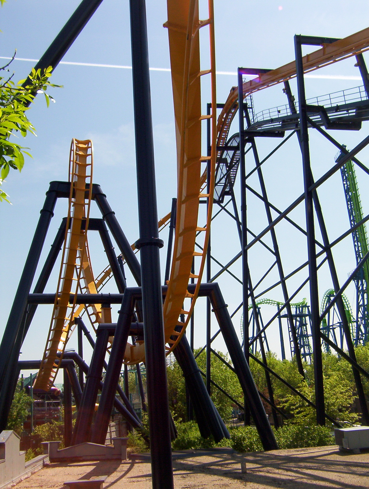 Batman: The Ride